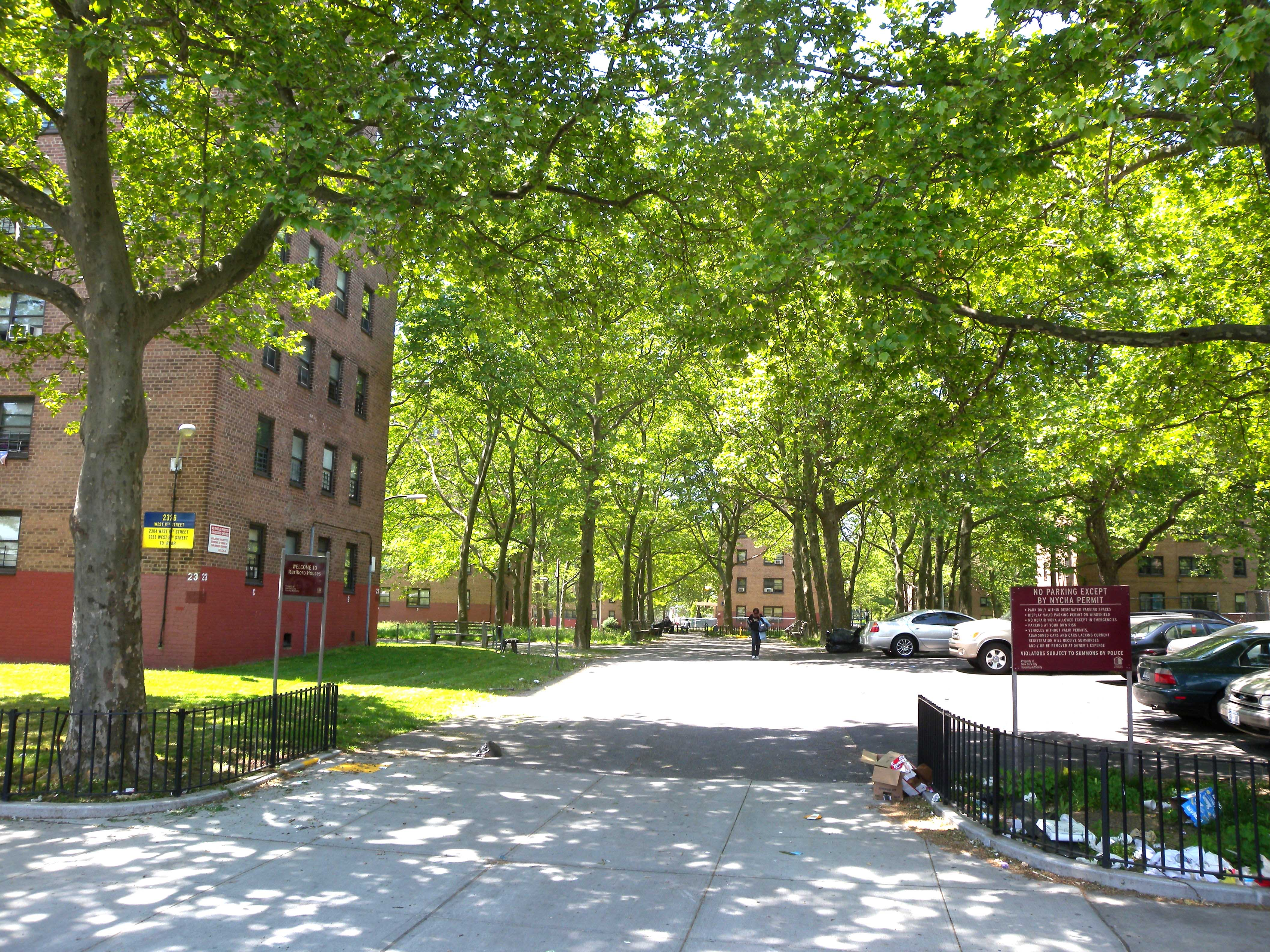 Looking west from West 8th Street, north of Avenue X, at NYCHA Marlboro Houses on a sunny midday.